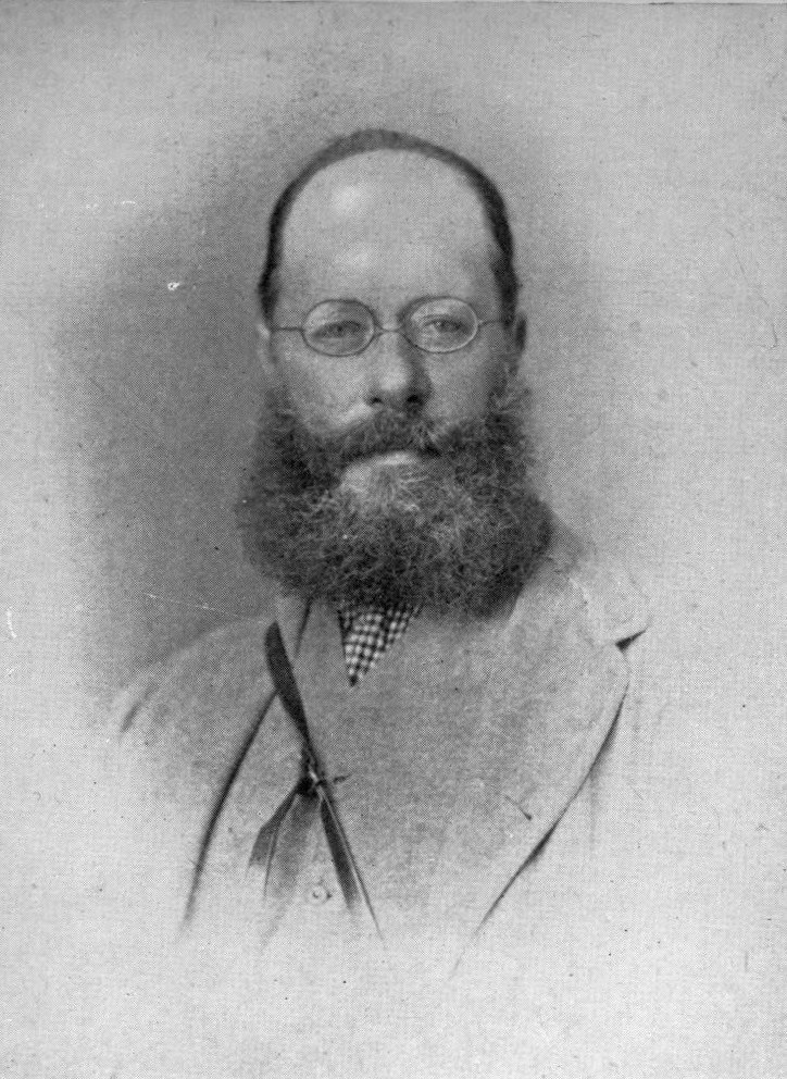 Edward Lear in 1867